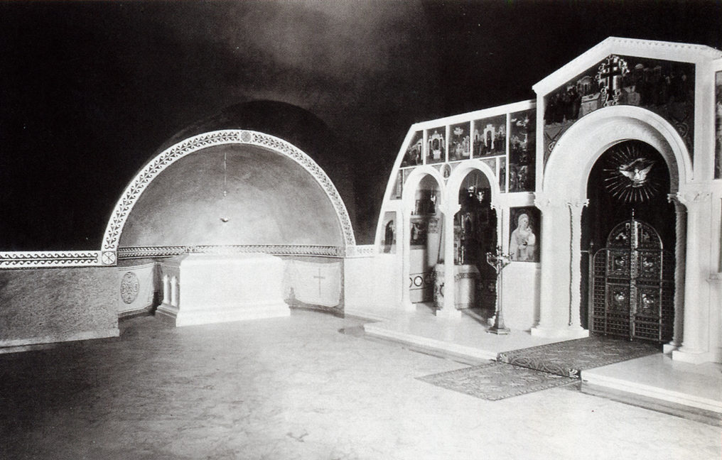 Grand Duke Sergei’s crypt at the Chudov Monastery